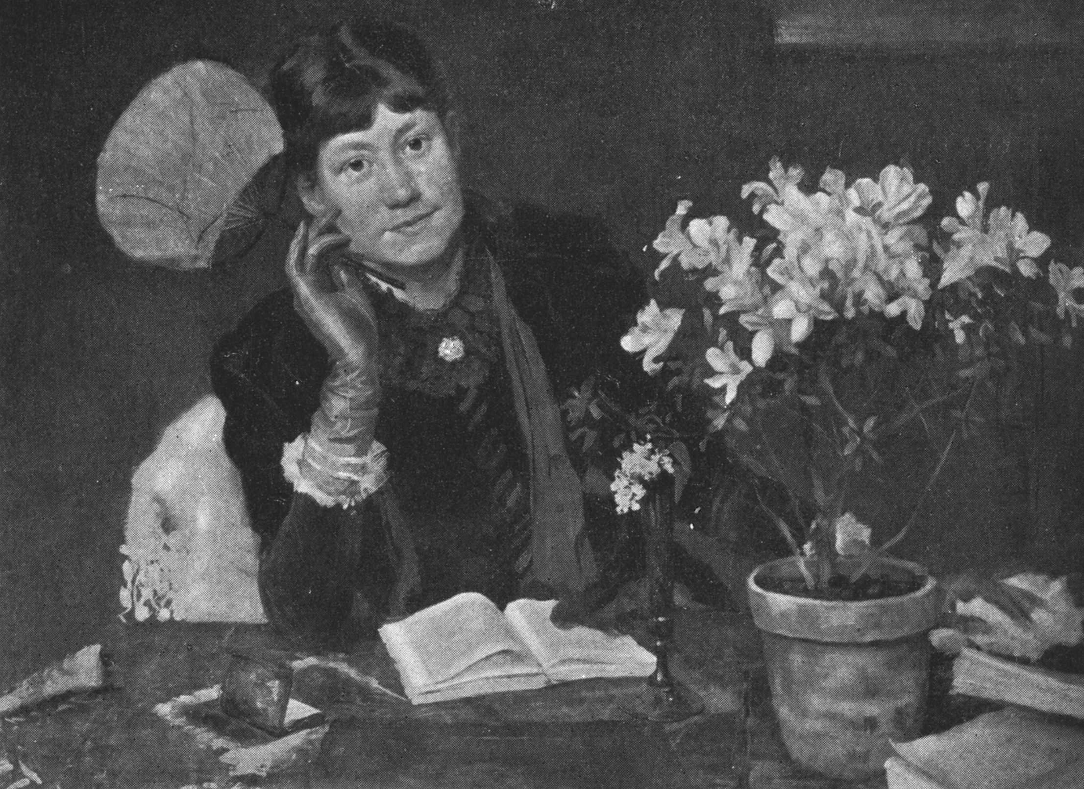 Julia Beck (1853-1935), Swedish artist